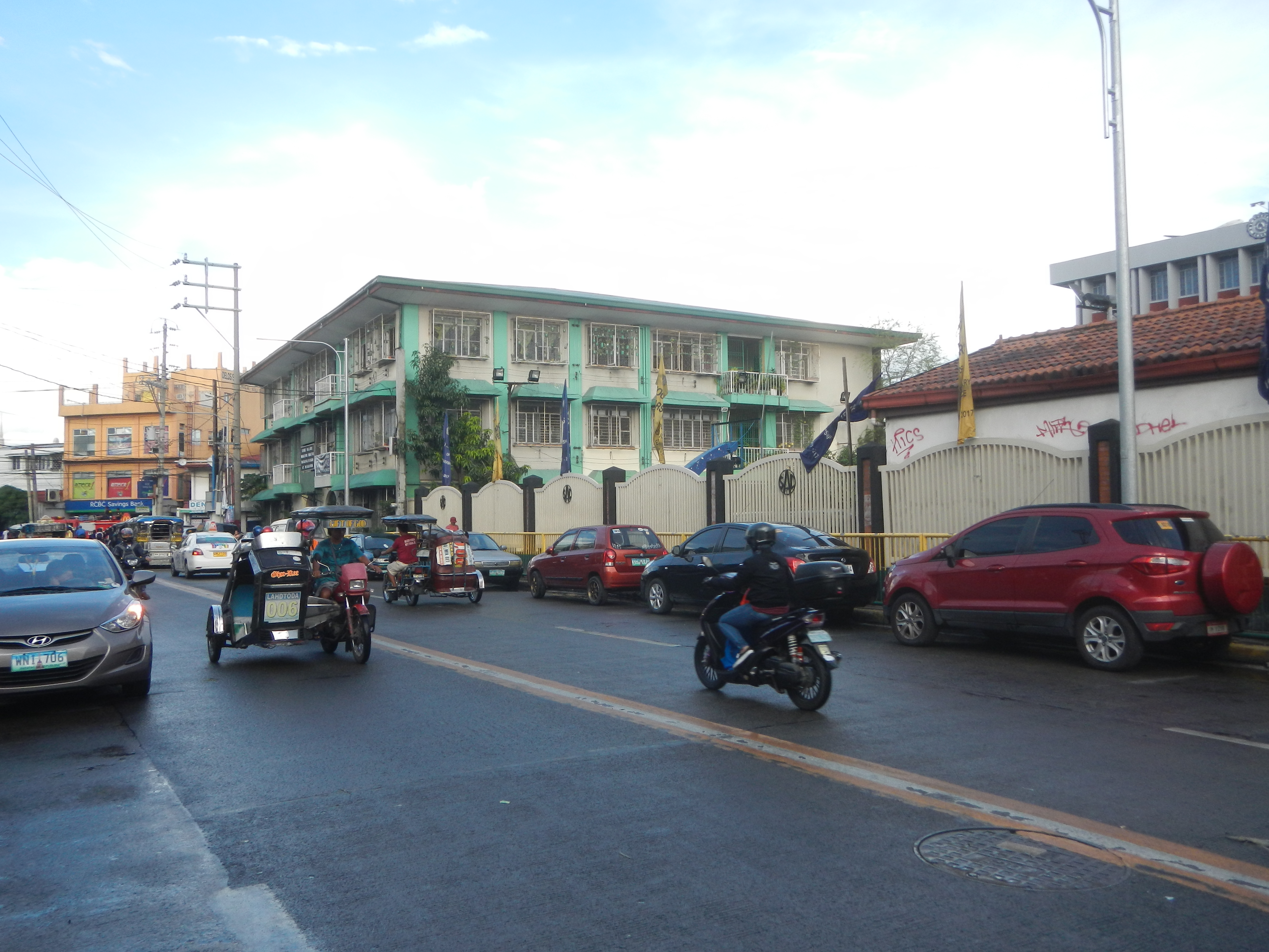 La Huerta National High School (Elpidio Quirino Avenue, Parañaque City), Manuel Hernandez Bernabe Don Galo-La Huerta Bridge, Parañaque City Sta. 9+766-Sta.9+841 Load limit 20 metric tons upon Parañaque River Parañaque Ultrasound and Diagnostic Center (Elpidio Quirino Avenue, Don Galo, Parañaque City) Legislative districts of Parañaque 1st District, Districts and barangays, Barangay La Huerta 14°29'50"N 120°59'43"E beside Don Galo 14°30'26"N 120°59'4"E Tambo 14°30'59"N 120°59'20"E San Dionisio 14°29'2"N 120°59'33"E Baclaran, Parañaque City Don Galo La Huerta Bridge (Parañaque) 14°30'7"N 120°59'34"E along Elpidio Quirino Avenue to Roxas Boulevard, Radial Road 2 from Baclaran LRT station (Note: Judge Florentino Floro, the owner, to repeat, Donor Florentino Floro of all these photos hereby donate gratuitously, freely and unconditionally Judge Floro all these photos to and for Wikimedia Commons, exclusively, for public use of the public domain, and again without any condition whatsoever).